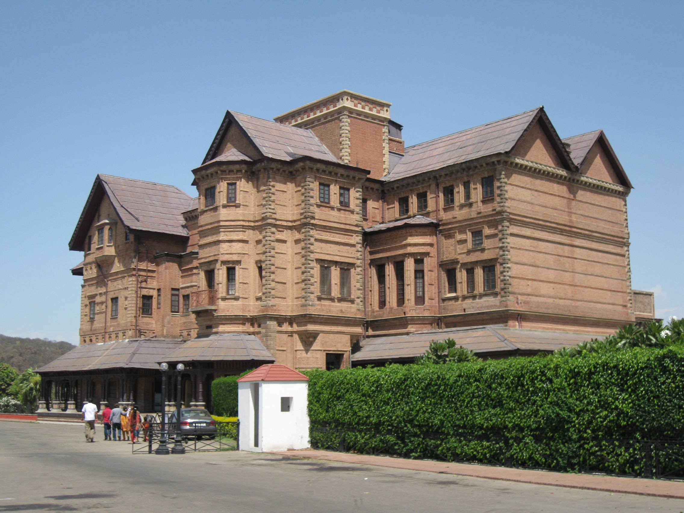 View of Amar Mahal Palace Museum in Jammu, India